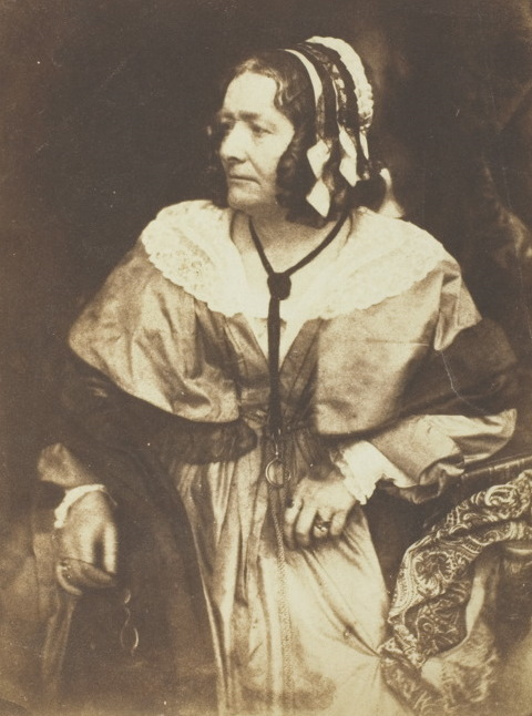 Mrs. Anna Brownell Jameson, 1844 Salted paper print